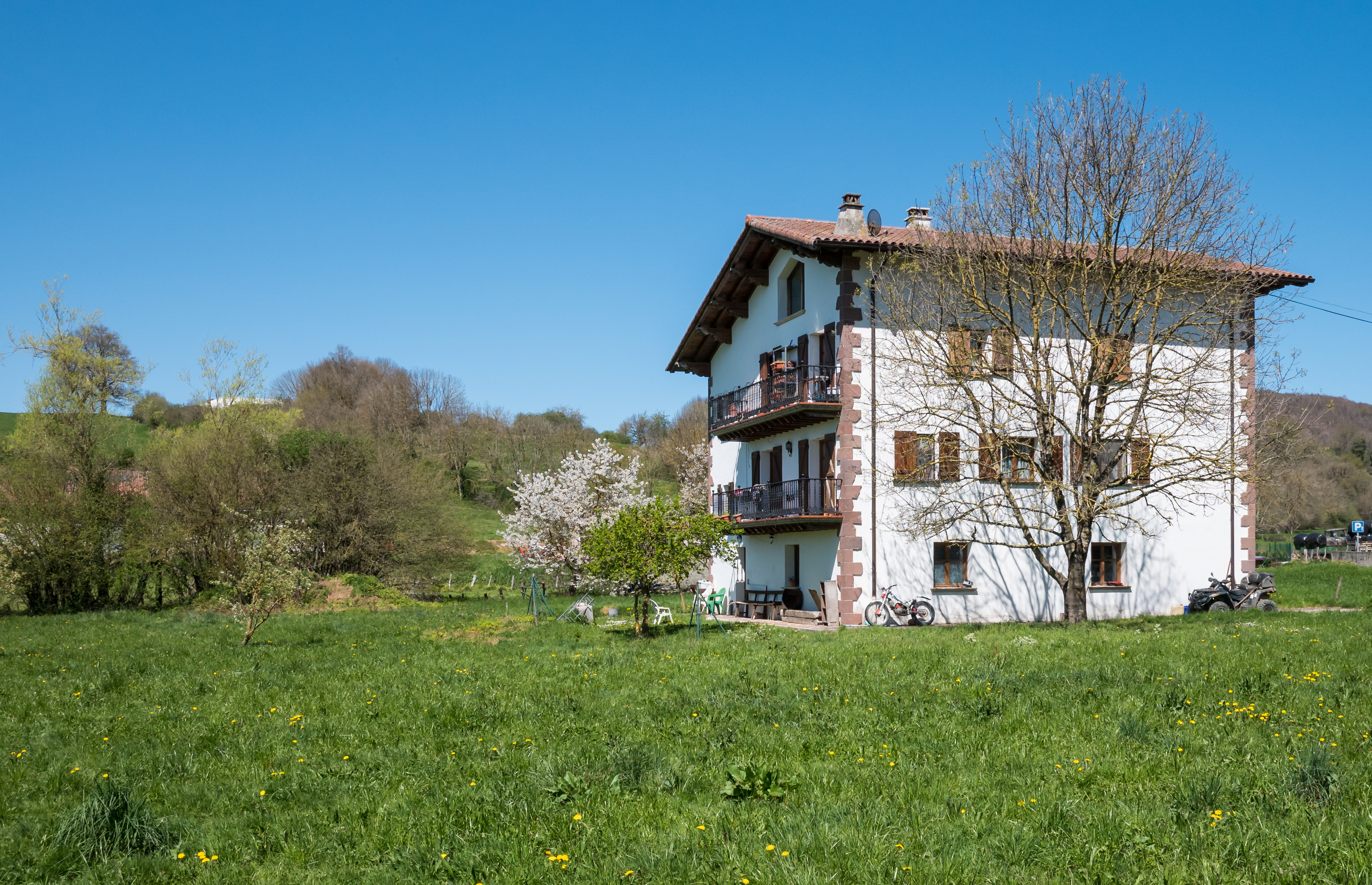 Village house in Lanz. Navarre, Spain